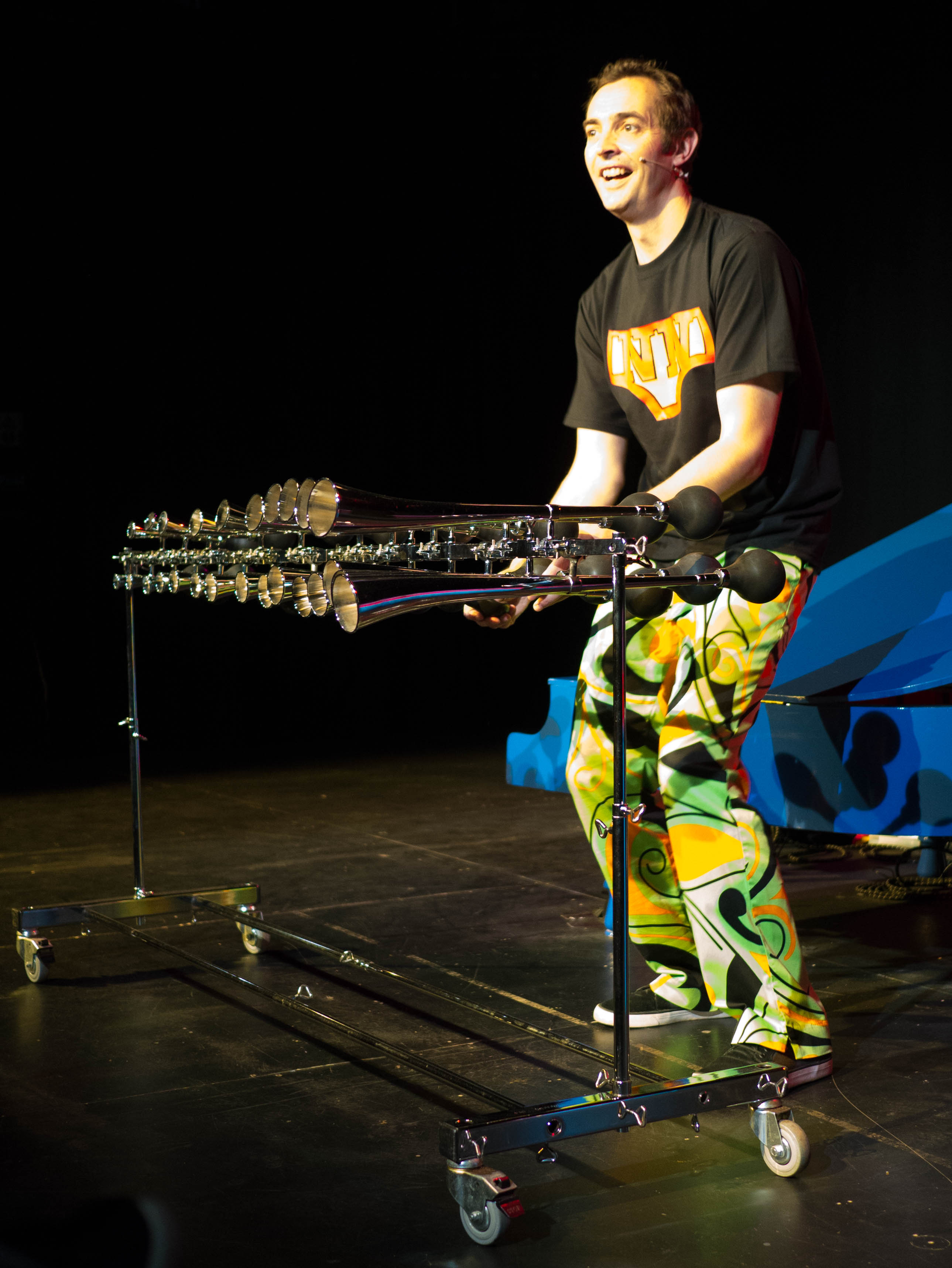 This is a photo of Nutty Noah playing the Hornaphone